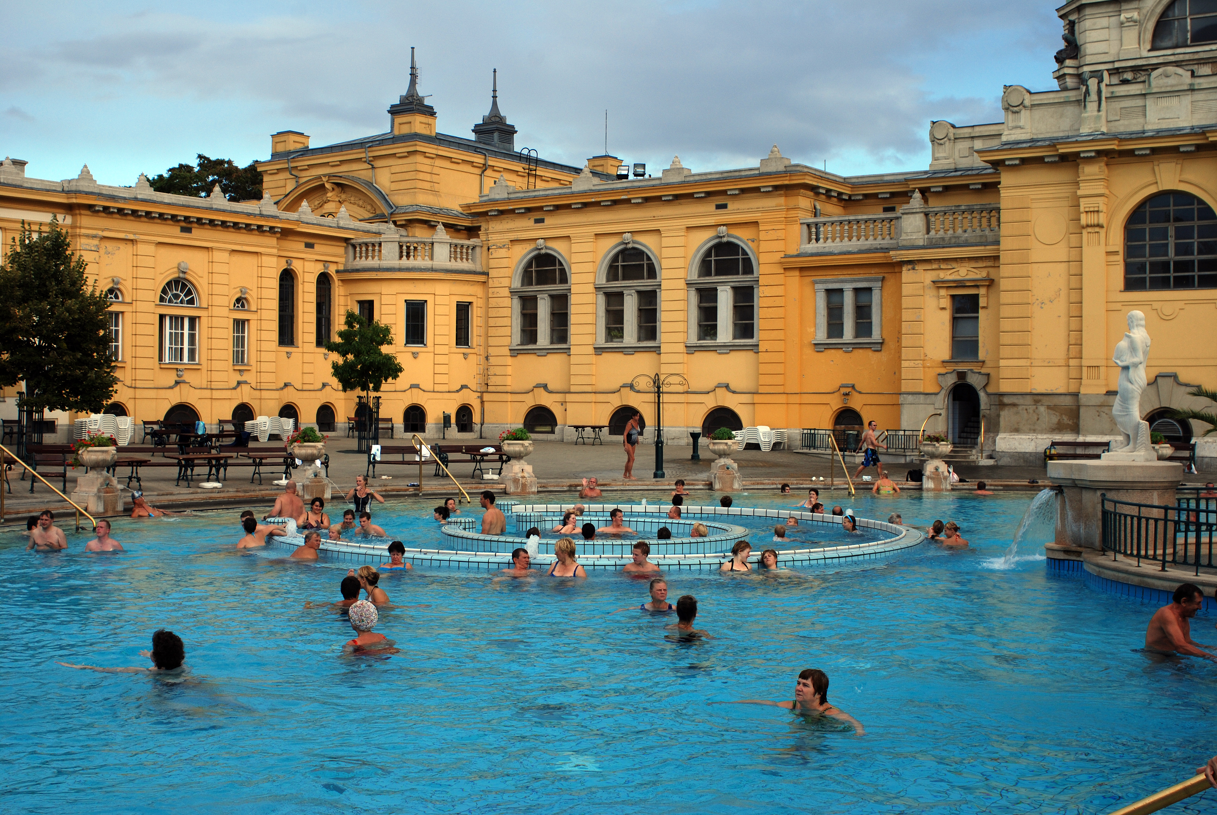 Budapest thermal spa Széchenyi Gyógyfürdő. Outside pool with jacuzzi and contraflow.